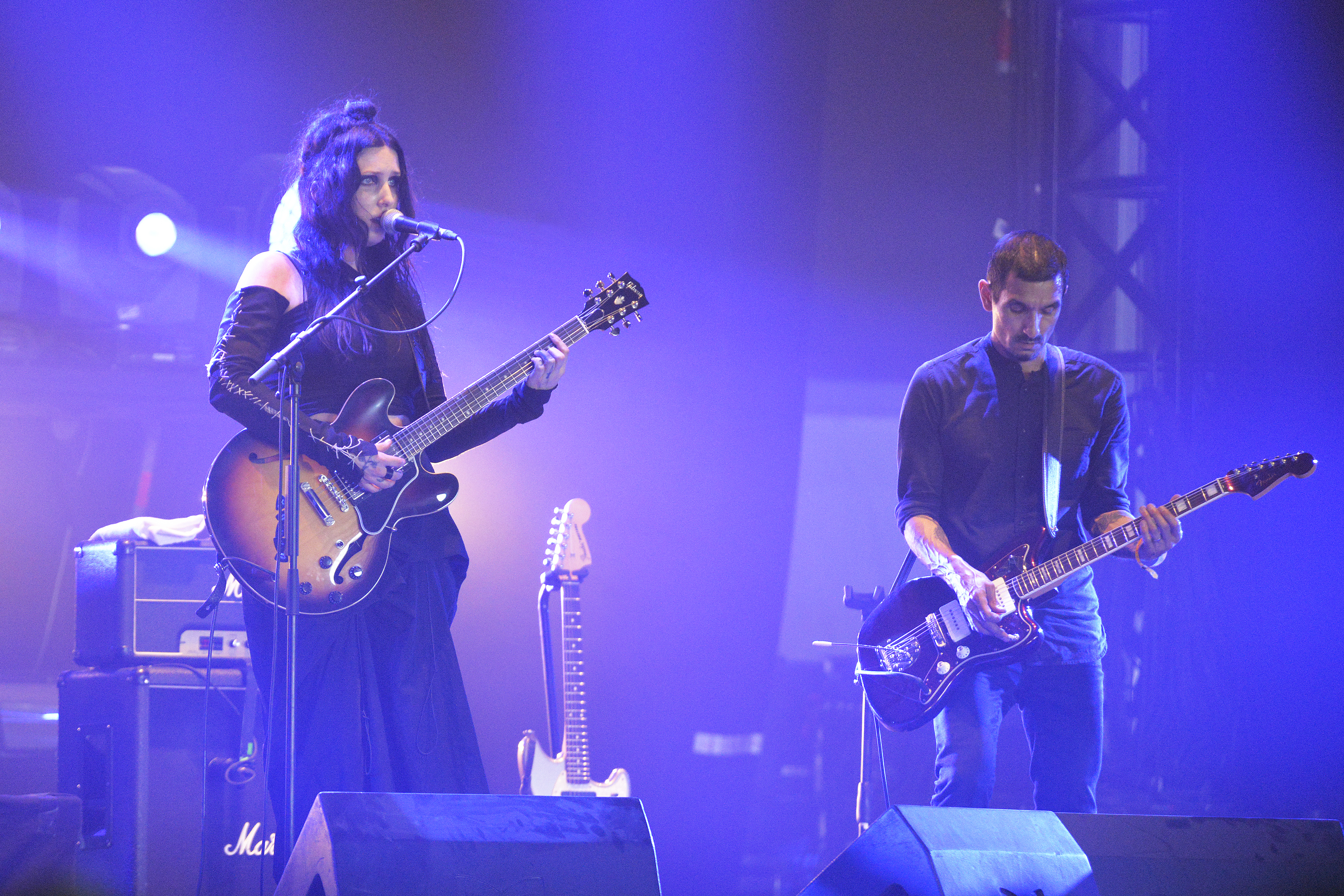 Chelsea Wolfe at 2017 Hellfest, France.